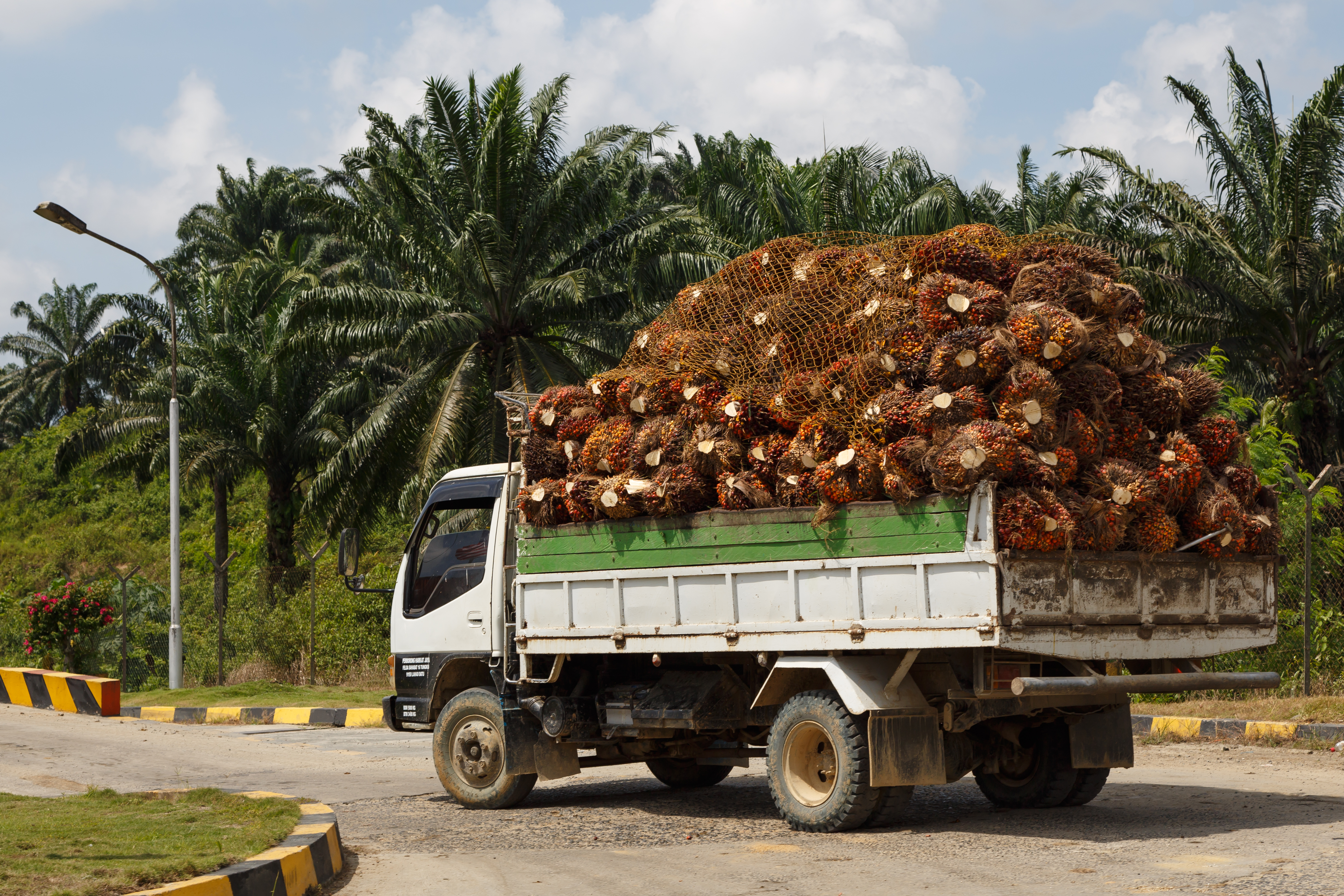 Cenderawasih, Sabah: A truck with Oilpalm fruits is entering Fajar Harapan Palm Oil Mill.